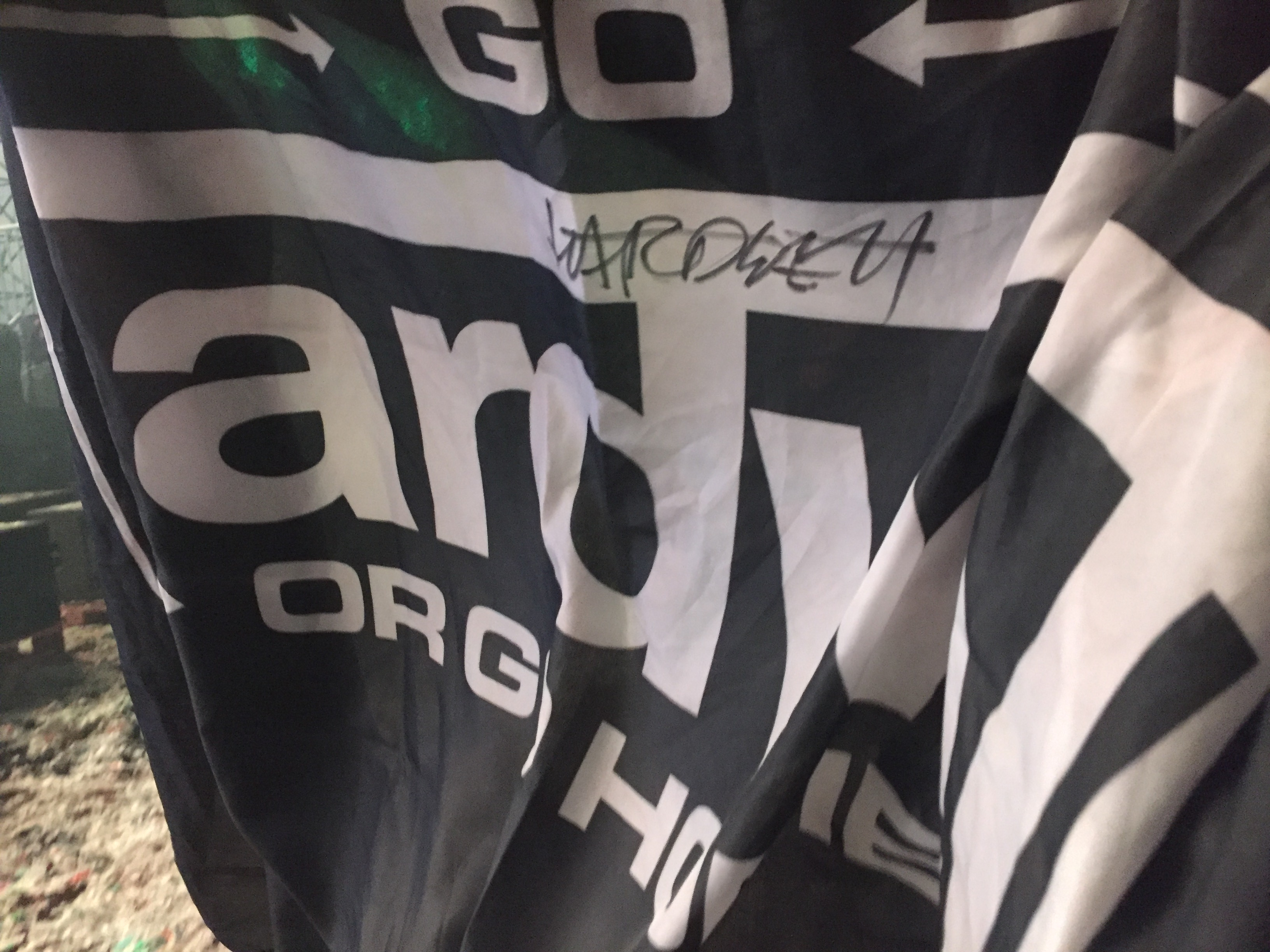 A flag that was signed by Hardwell himself at Airbeat One Festival 2017